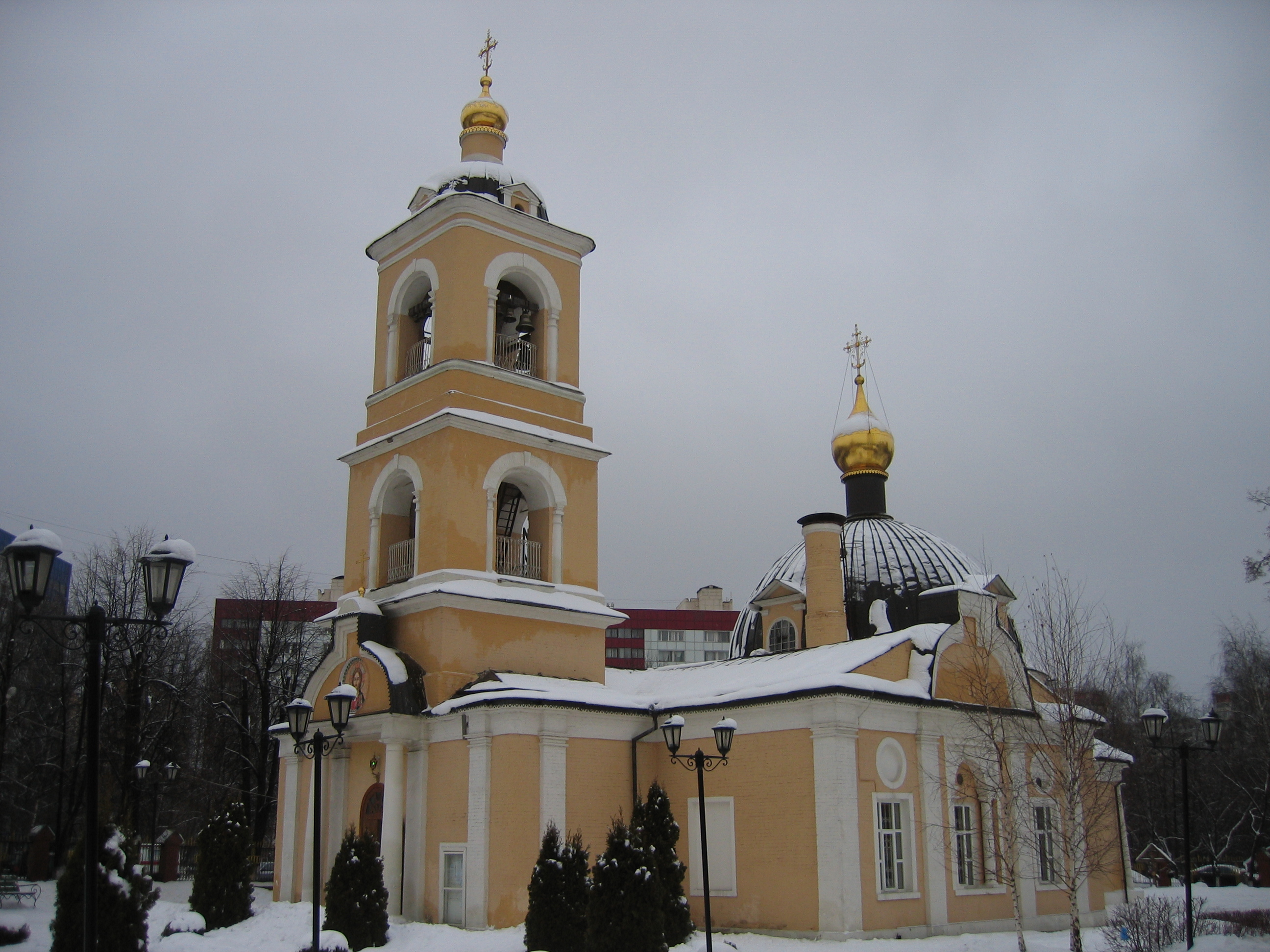 Grebnev Church in Odintsovo, Russia